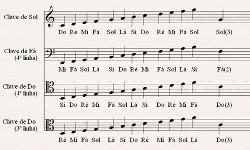 Most common clefs with notes examples